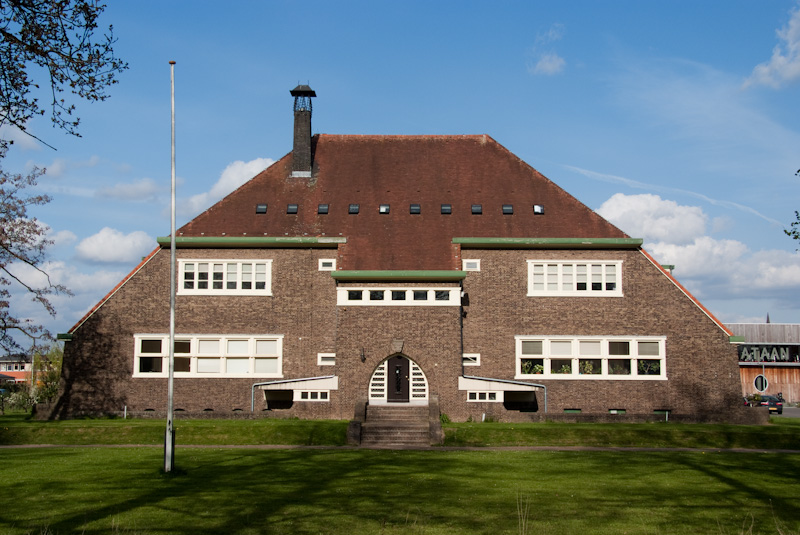 building designed by architect Blaauw